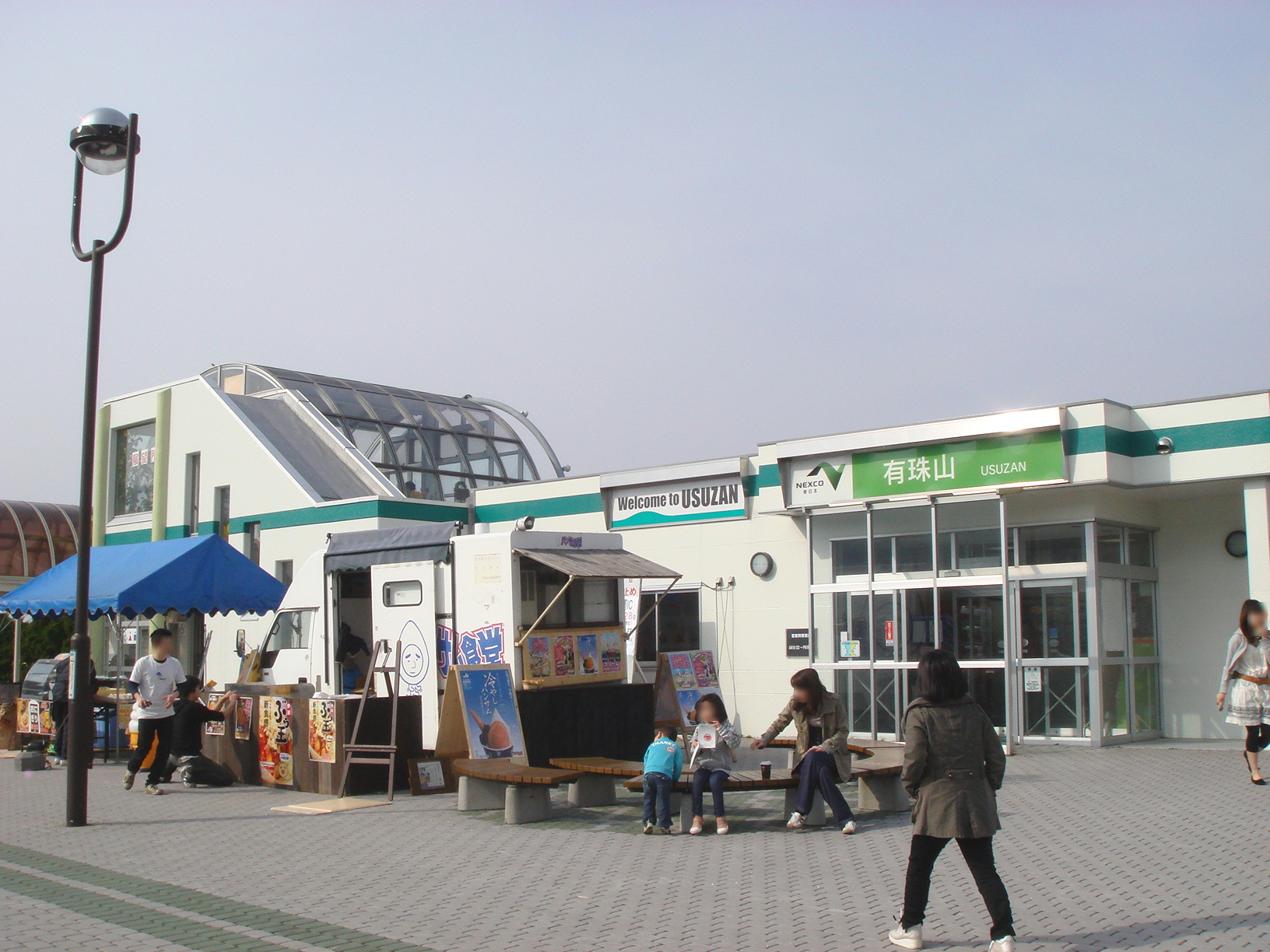 Usuzan Service Area on the Hokkaidō Expressway southbound line